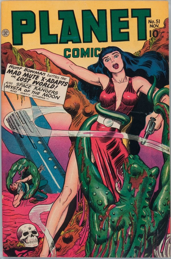 Cover scan of Planet Comics, No. 51, Fiction House, November 1947.